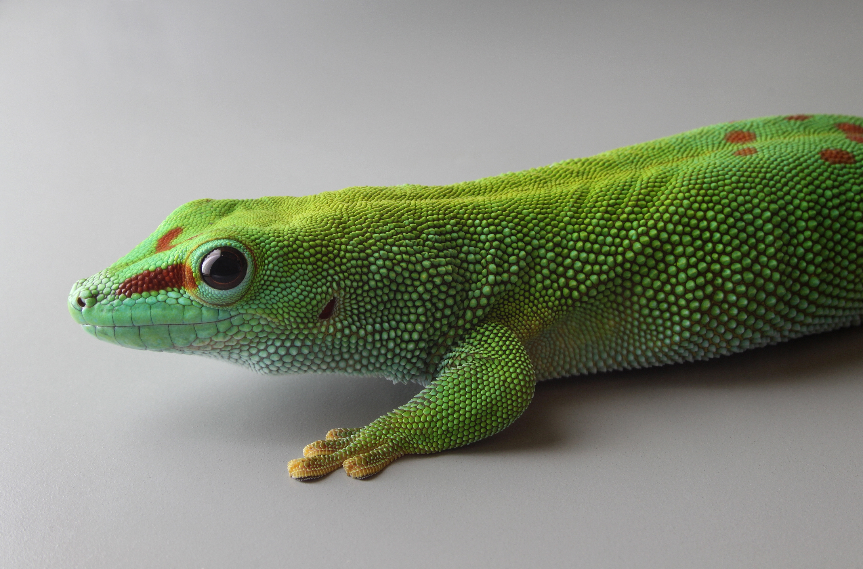 Madagascar giant day gecko (Phelsuma grandis), Stuttgart Zoological Garden, Germany